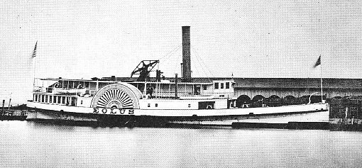 The Baltimore Steam Packet Company's Eolus paddlewheel steamboat in an 1869 photo by William King Covell